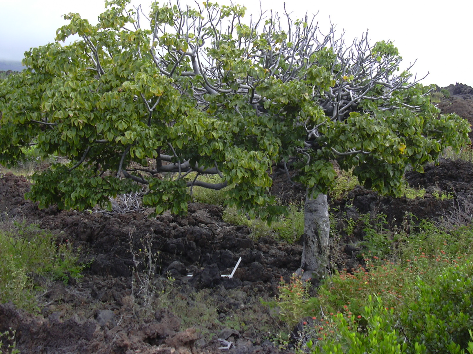 Reynoldsia sandwicensis (habit). Location: Maui, Kanaio